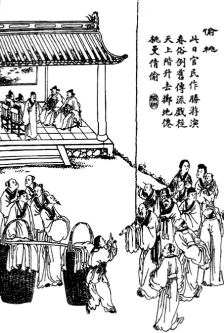 19th-century illustration of a scene from the short story "Stealing Peaches" collected in Strange Tales from a Chinese Studio (1740).